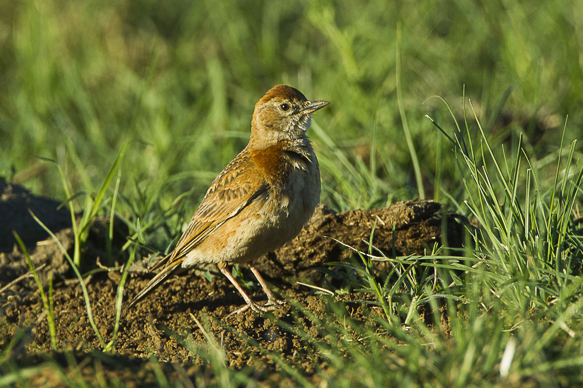 Red-capped Lark - Natal_S4E6671